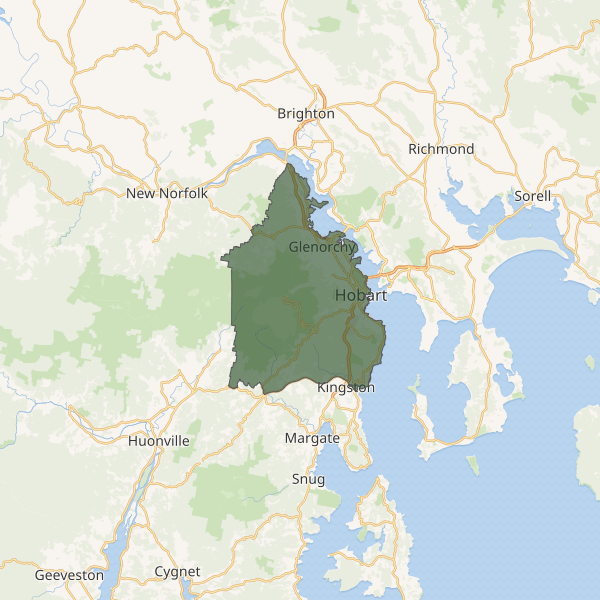 Electoral boundaries from Administrative Boundaries [May 2016] ©PSMA Australia Limited licensed by the Commonwealth of Australia under Creative Commons Attribution 4.0 International licence (CC BY 4.0): Background map layer and image thumbnail generated by Wikimedia maps; Creative Commons Attribution-ShareAlike 4.0 International licence (CC BY-SA 4.0).